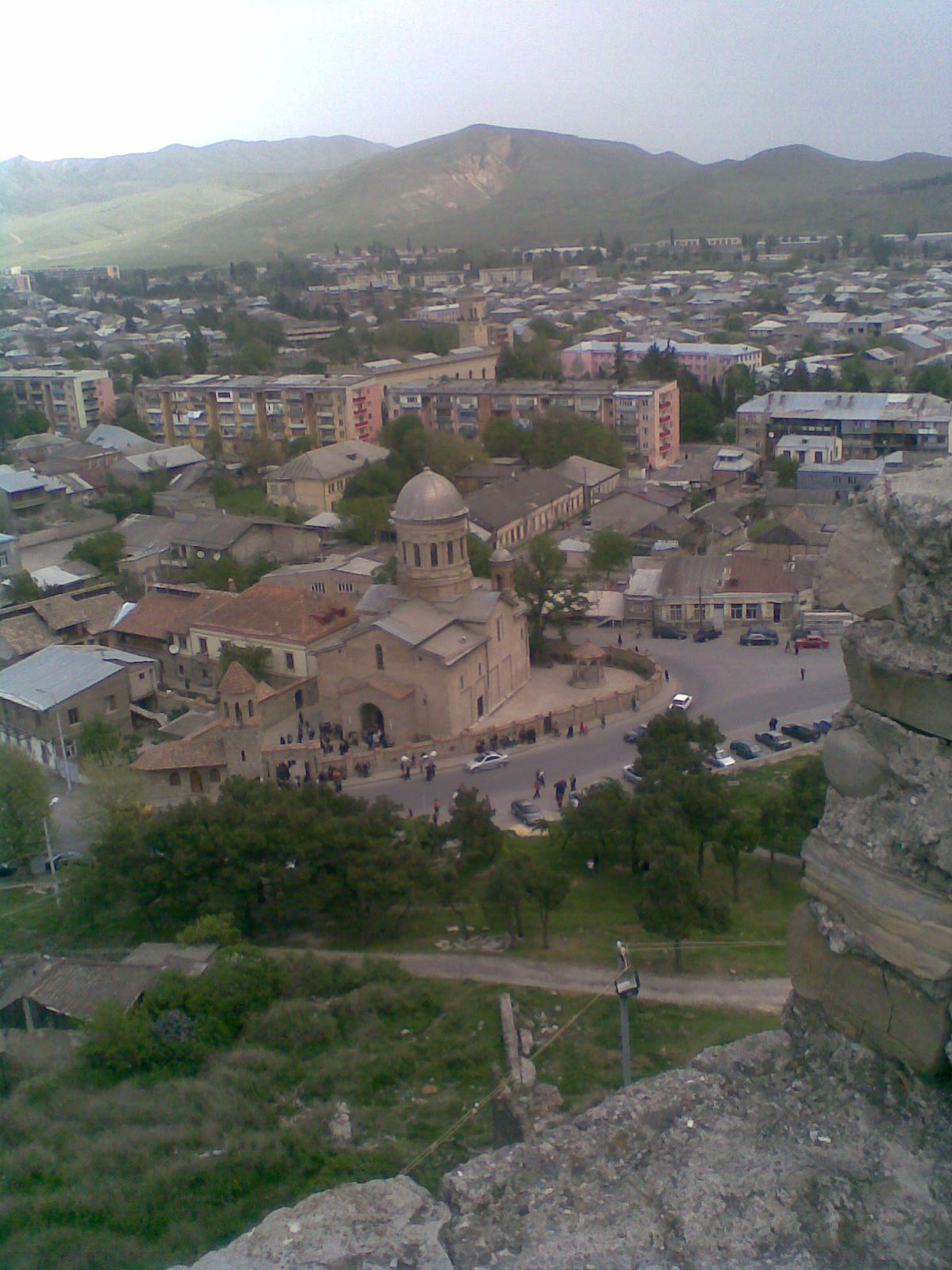 A cathedral in Gori, Georgia. View from the Gori Fortress